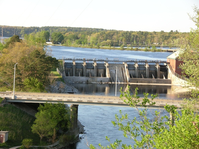 Croton Dam Muskegon River from Conklin Park nature trail